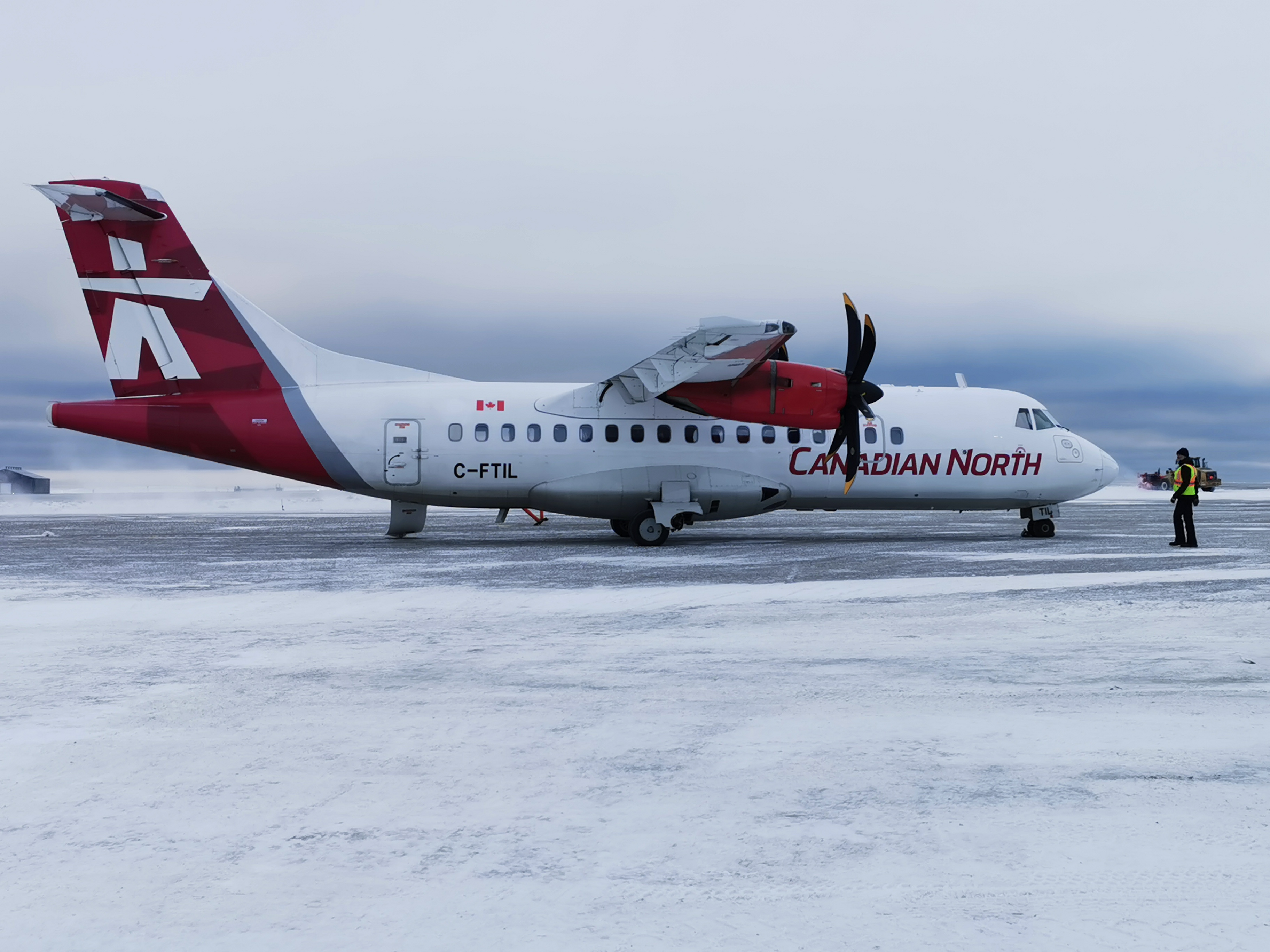 Although the aircraft is still registered to First Air it is operating as Canadian North after the merger